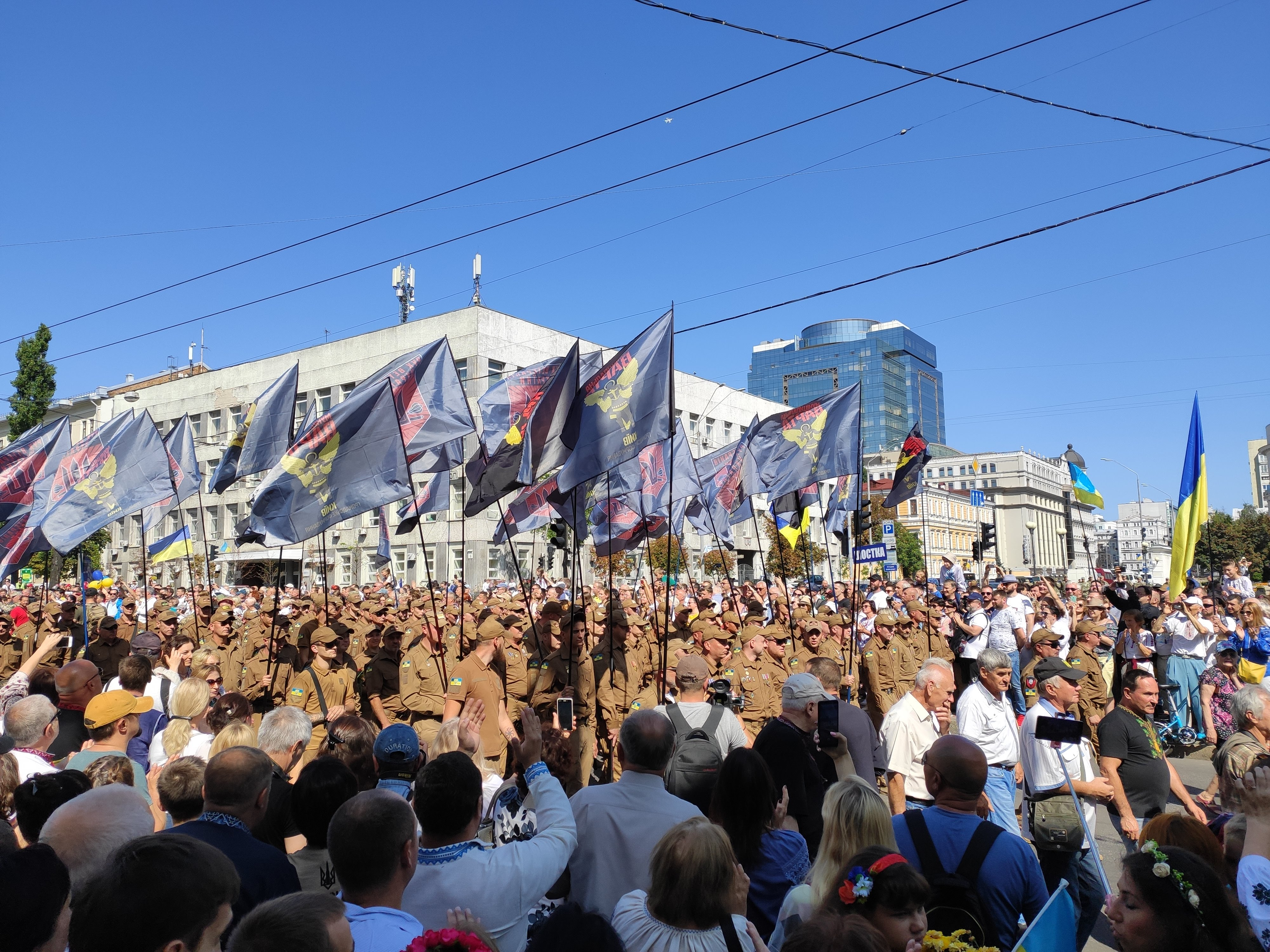 Beginning of the Veterans March